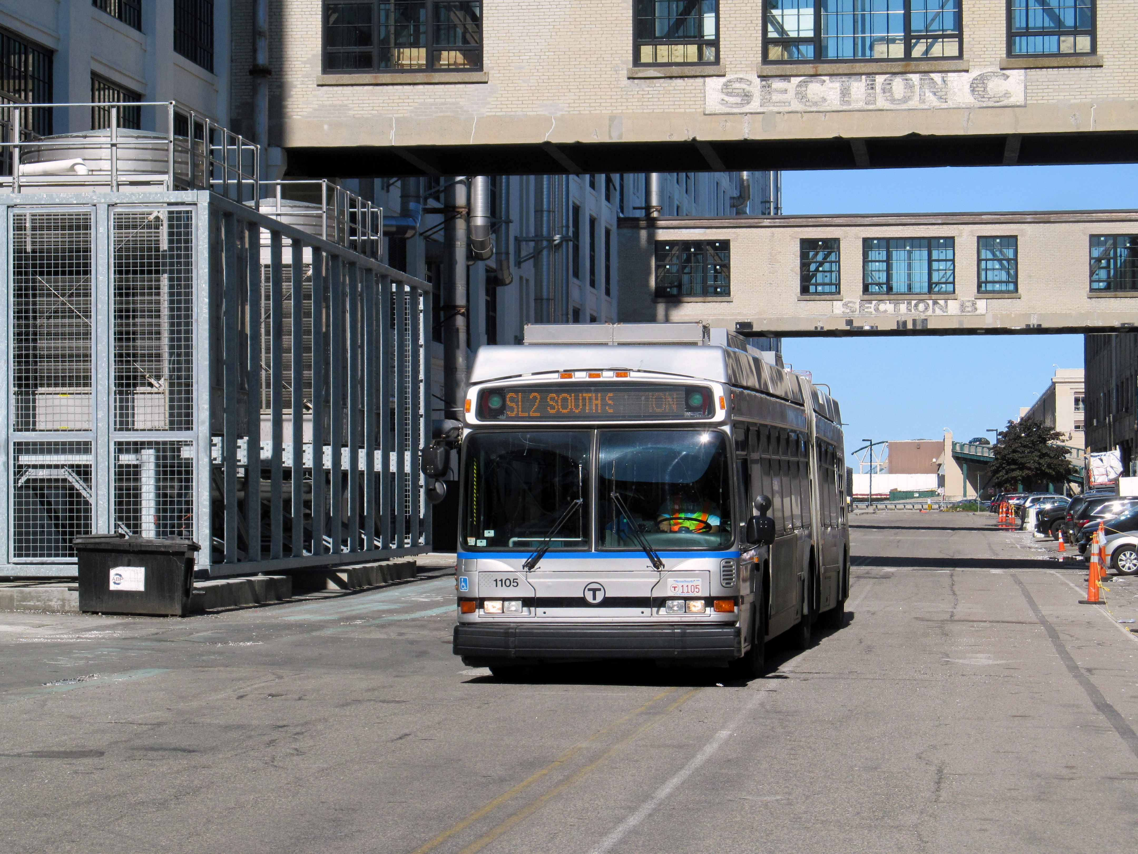 Silver Line route SL2 bus on Black Falcon Avenue in June 2017